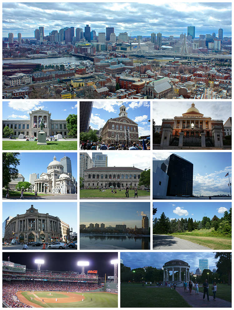 A collage of landmarks in Boston. From top left: Boston skyline and Zakim Bridge viewed from the Bunker Hill Monument, Museum of Fine Arts, Boston, Faneuil Hall, Massachusetts State House, Christian Science Center, Boston Public Library and Copley Square, John F. Kennedy Presidential Library and Museum, South Station, Boston University, Arnold Arboretum, Fenway Park, and Boston Common